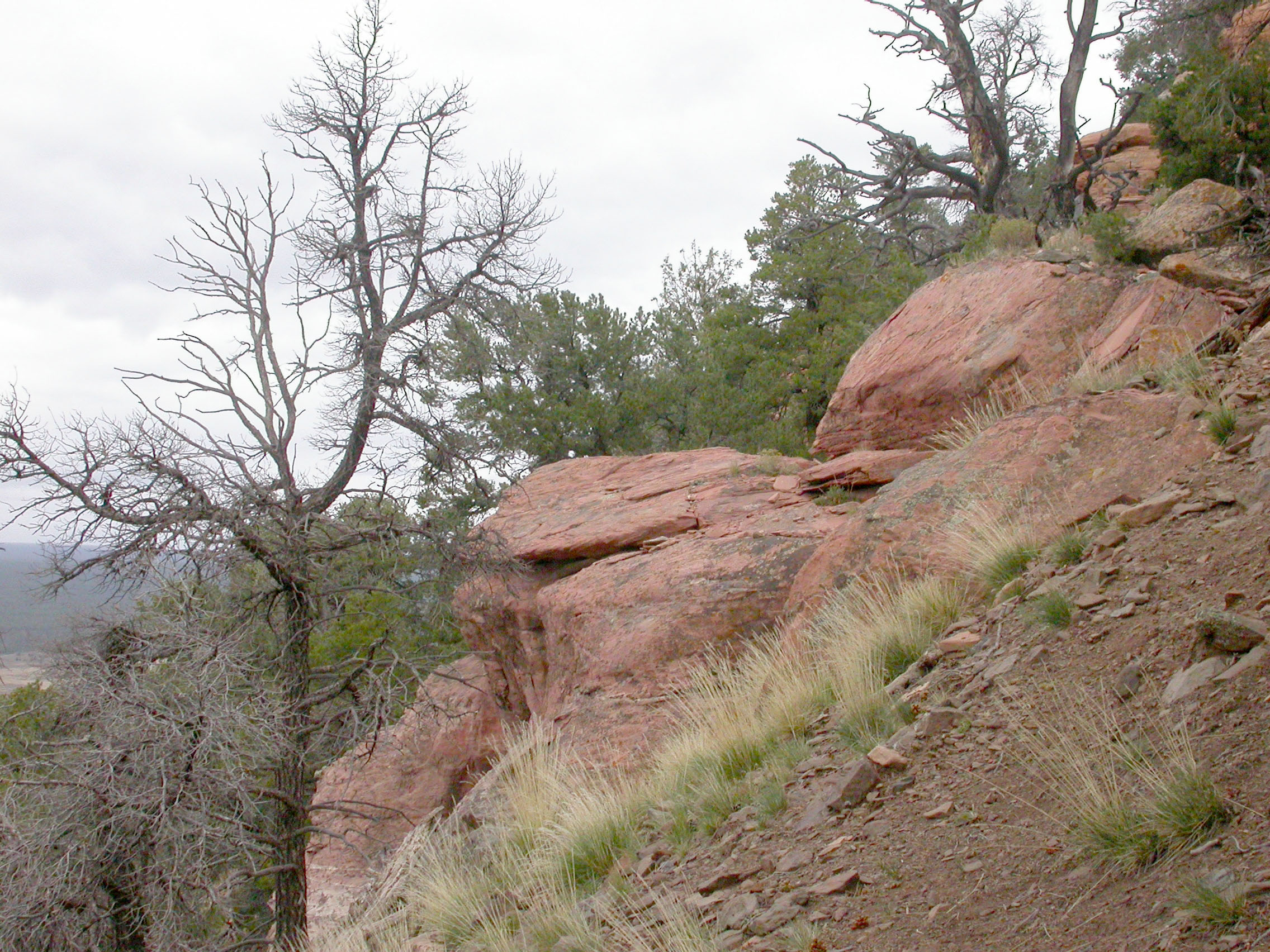 Sandstone of the Moenkopi formation on, Arizona. This formation makes up the bulk of the lower mountain. The top layer of Red Butte is composed of Shinarump Conglomerate.